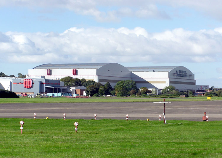 BAe Systems aircraft hangars at their Filton factory. The Bristol Brabazon, Bristol Britannia and Concorde were constructed in these buildings. A third hangar is hidden behind these two. Taken by Adrian Pingstone in September 2004 and released to the public domain.